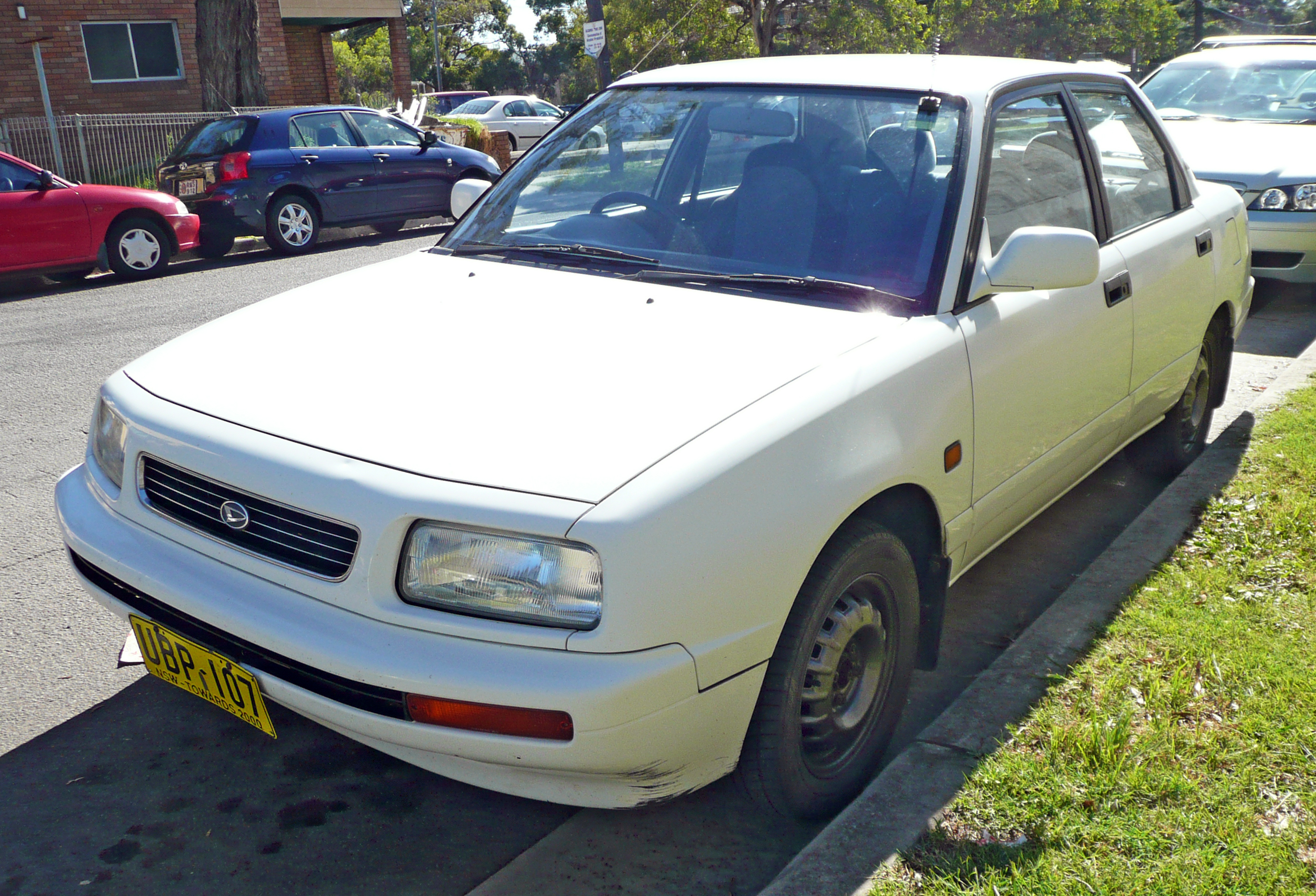 1995 Daihatsu Applause (A101) Xi liftback. Photographed in Sutherland, New South Wales, Australia.